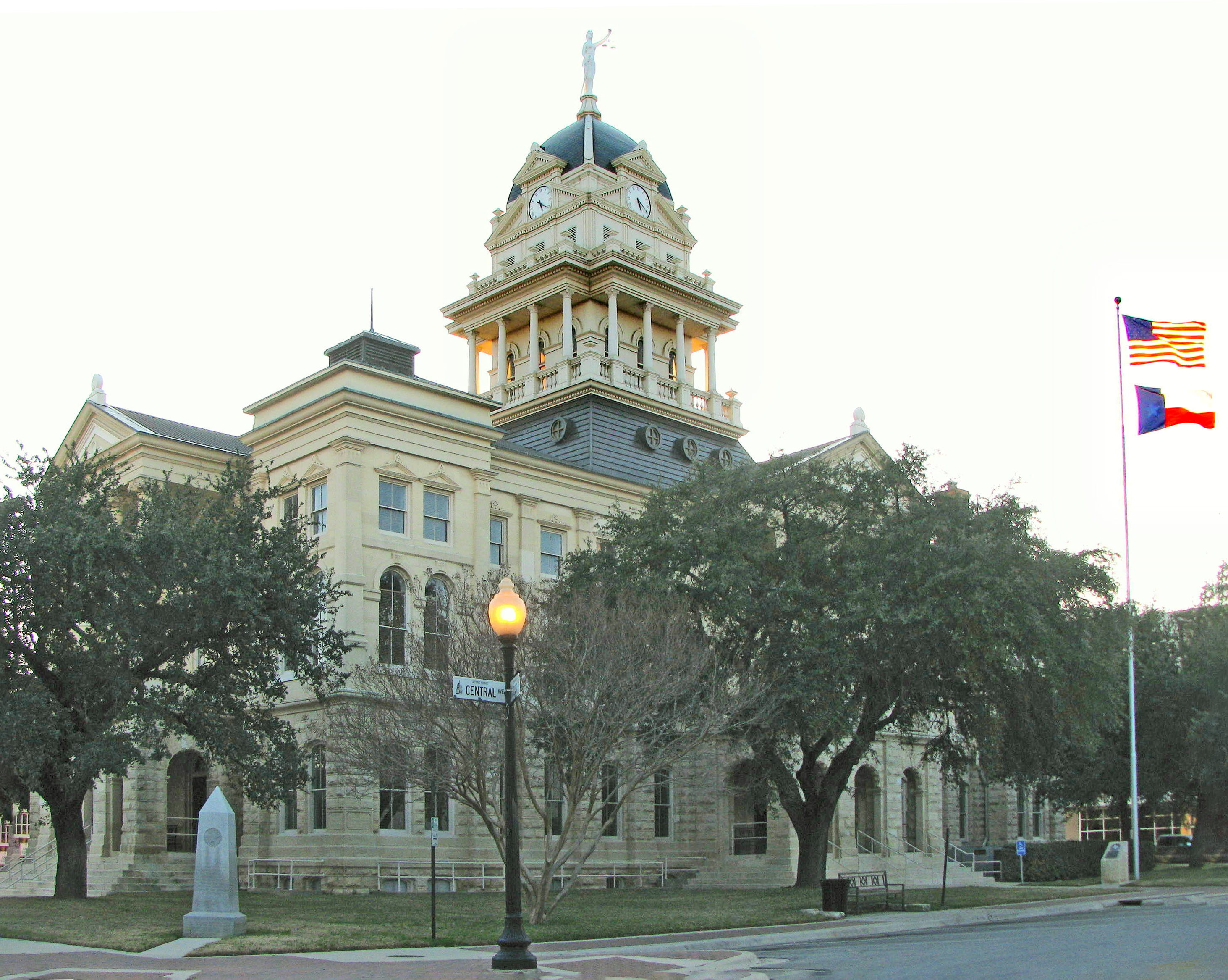 The Bell County Courthouse in Belton, Texas at 31° 3'21.26"N 97°27'49.31"W. See also Belton Courthouse (2).jpg.